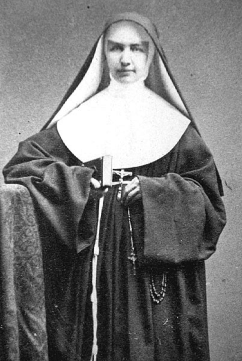 Mother Marianne Cope (23 January 1838 – 9 August 1918), was a Franciscan nun of the Sisters of the Third Order of Saint Francis, a religious order of the Roman Catholic Church. Born in Heppenheim (Germany) and entered religious life in Syracuse, New York, she worked, lived and died for the lepers on the island of Moloka‘i in Hawai‘i.